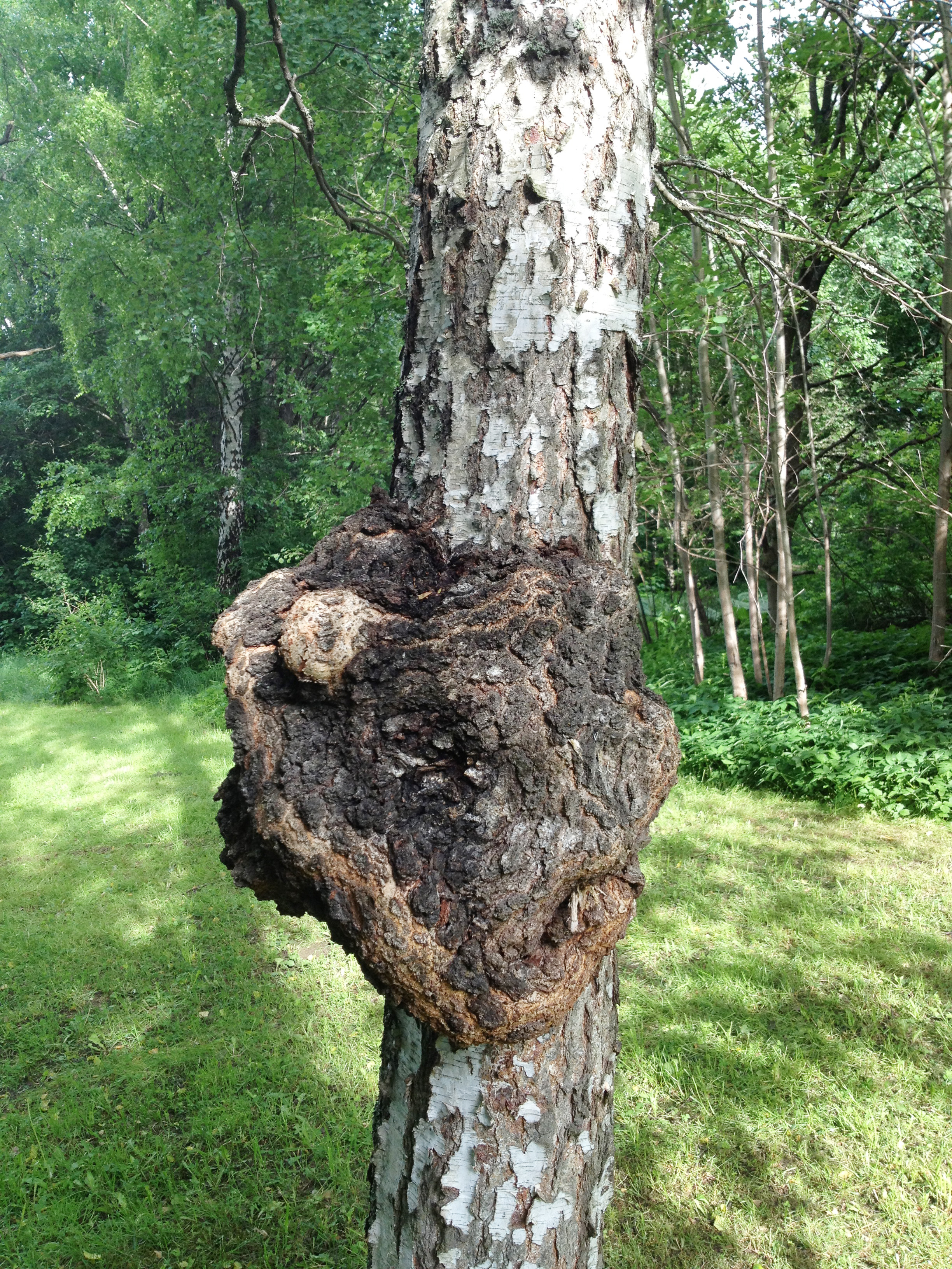 Burl on a birch